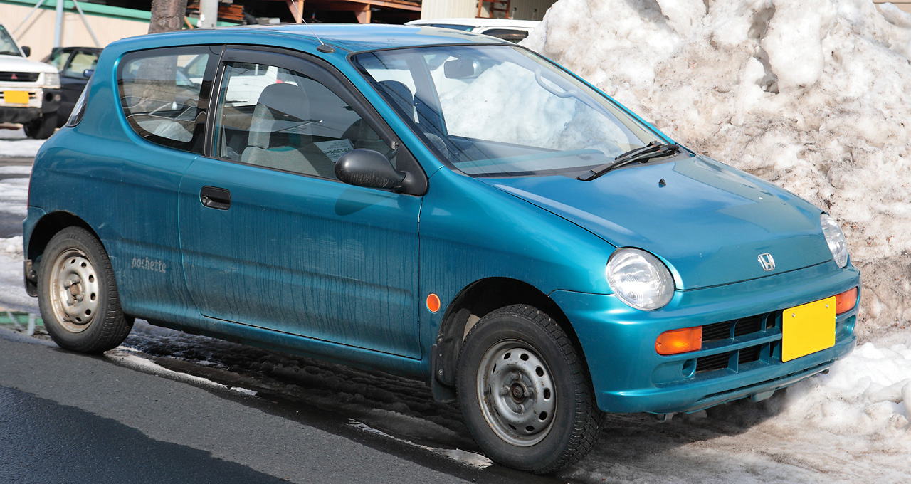 Honda Today Pochette ( JA4 )